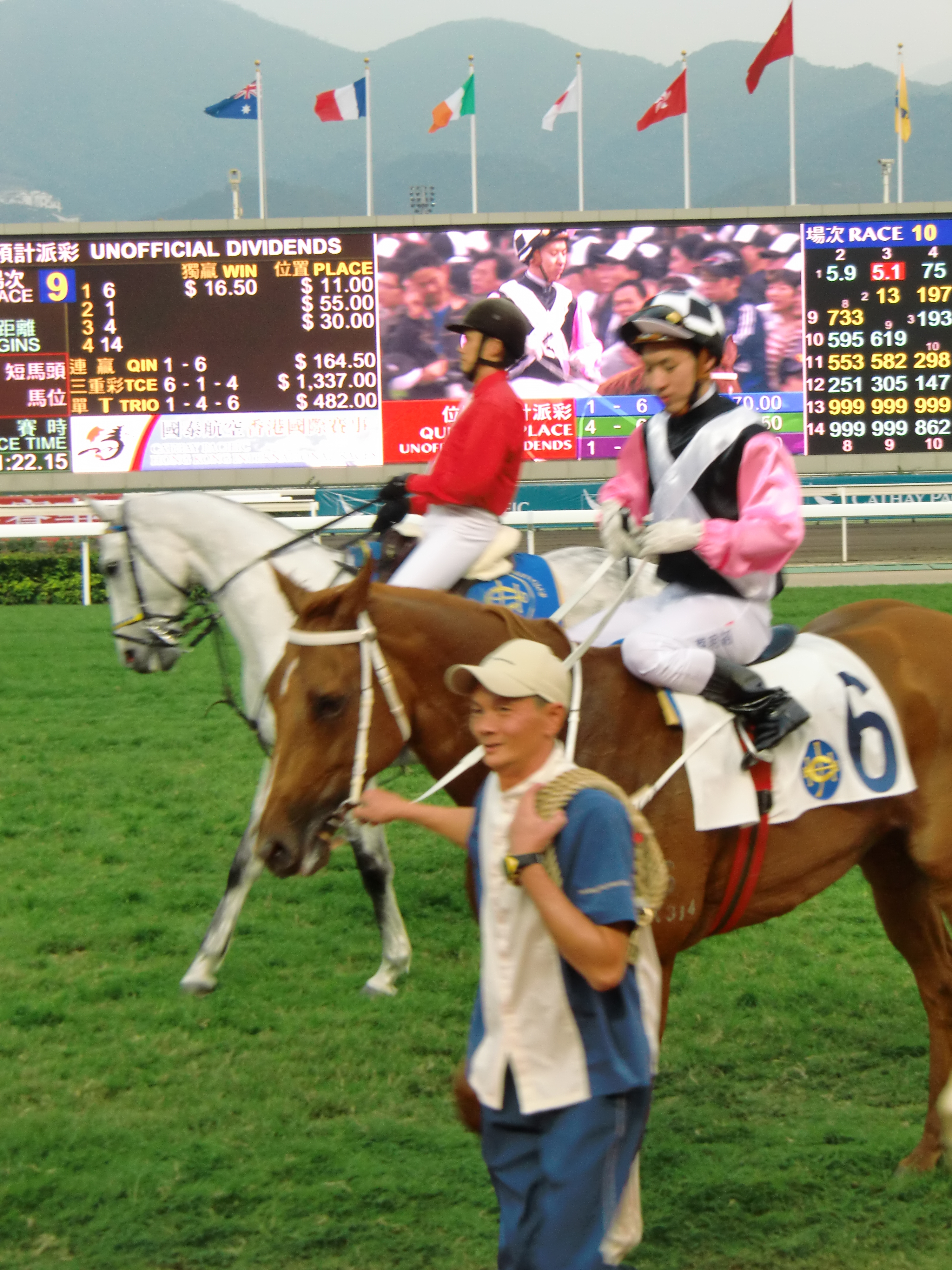 Beauty Flash a Thoroughbred rachhorse in Hong Kong